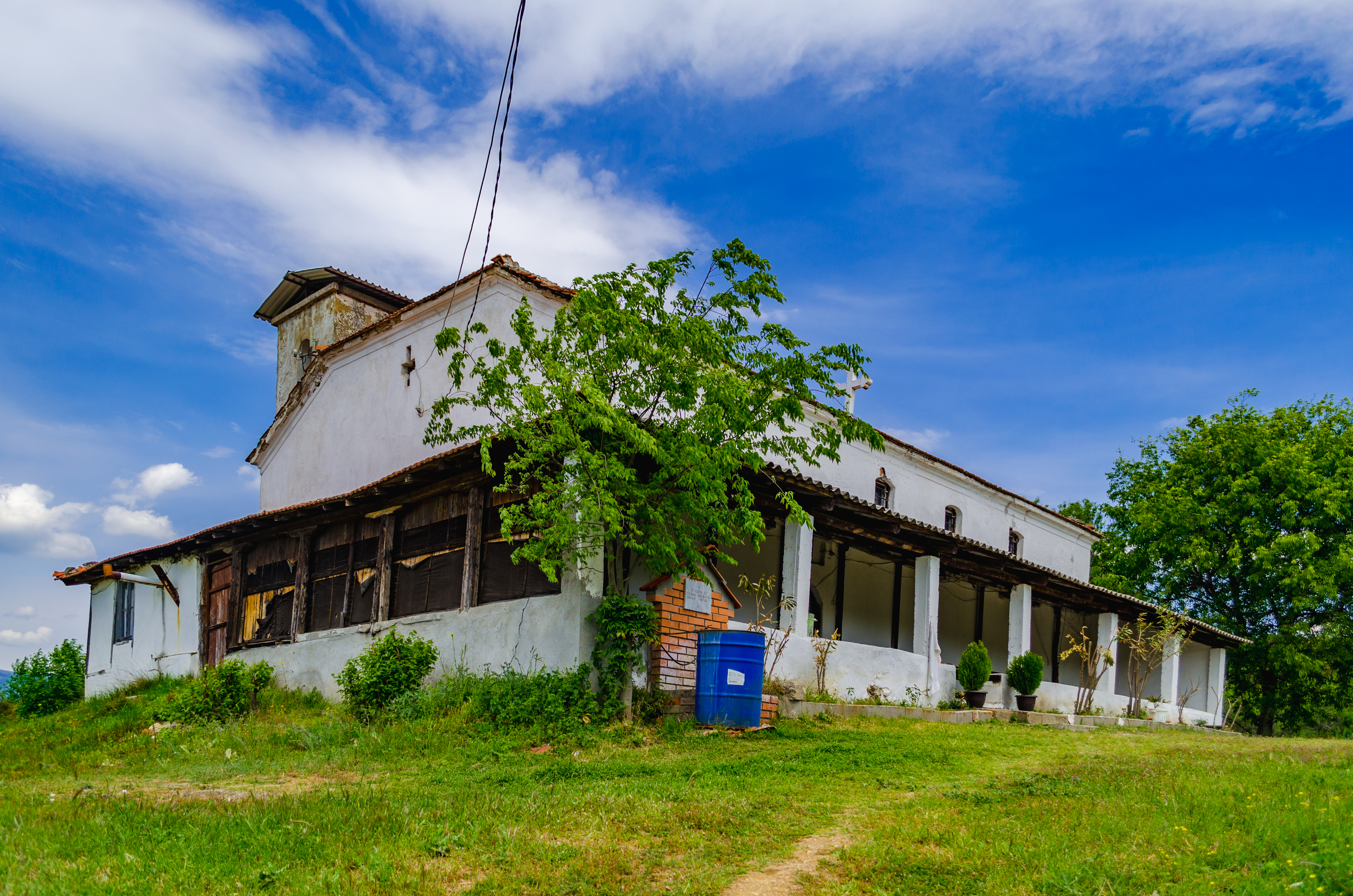 View of the St. Petka Church in the village Marvinci